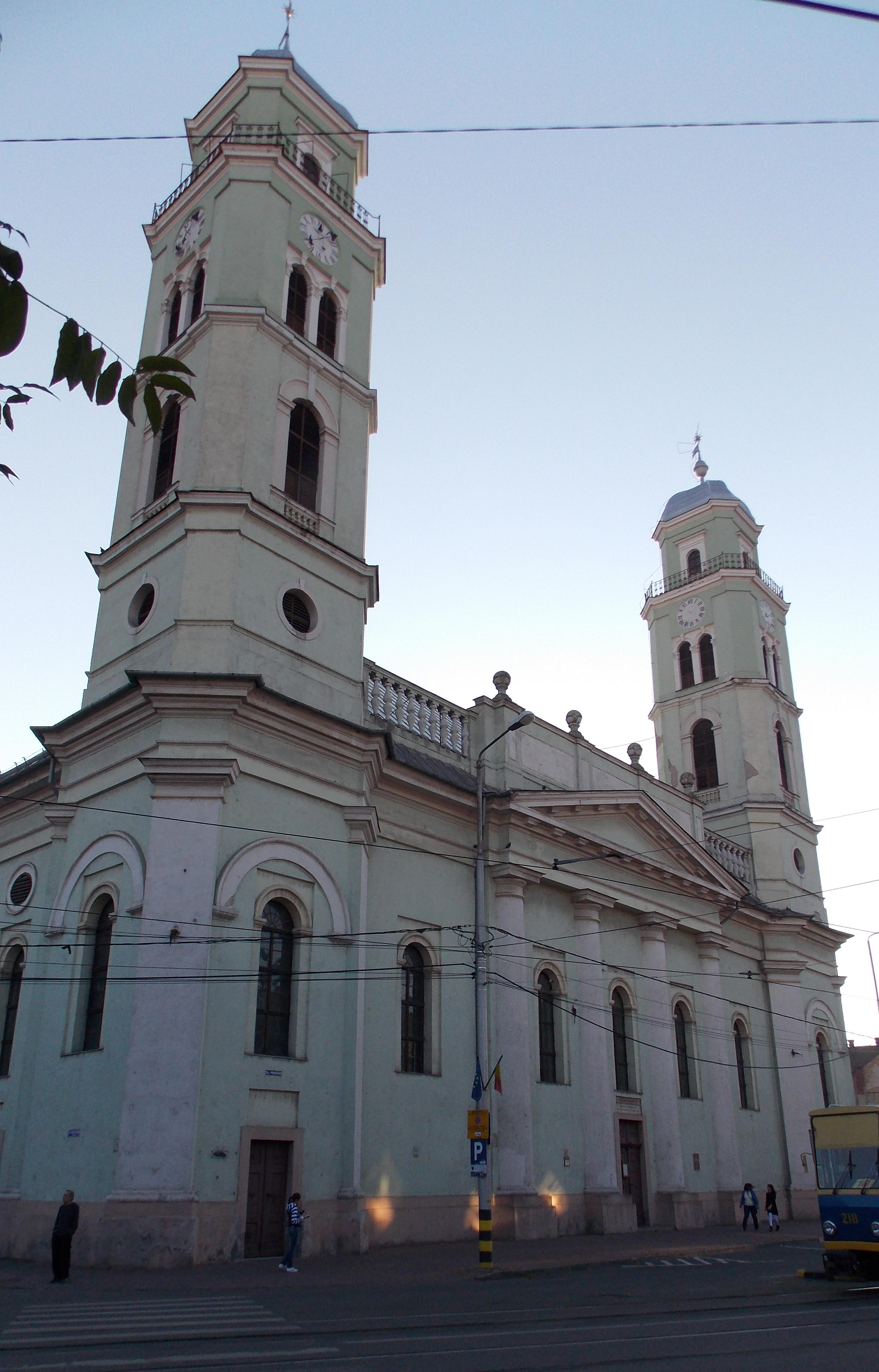 Reformed Church - OradeaRomână: Biserica Reformată - Oradea